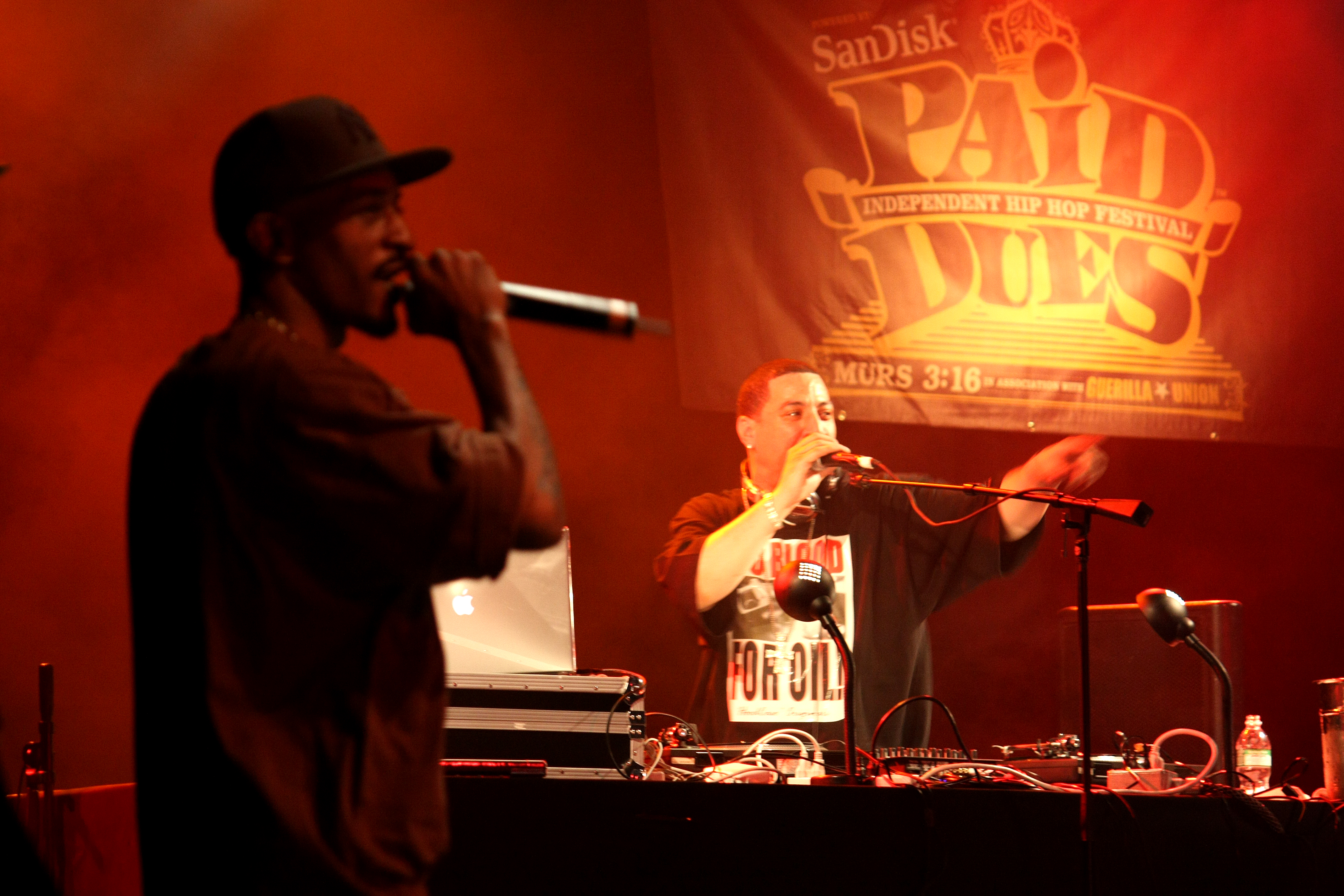 Rakim and Kid Capri performing at the Paid Dues hip hop festival at the Nokia Theatre in New York City.